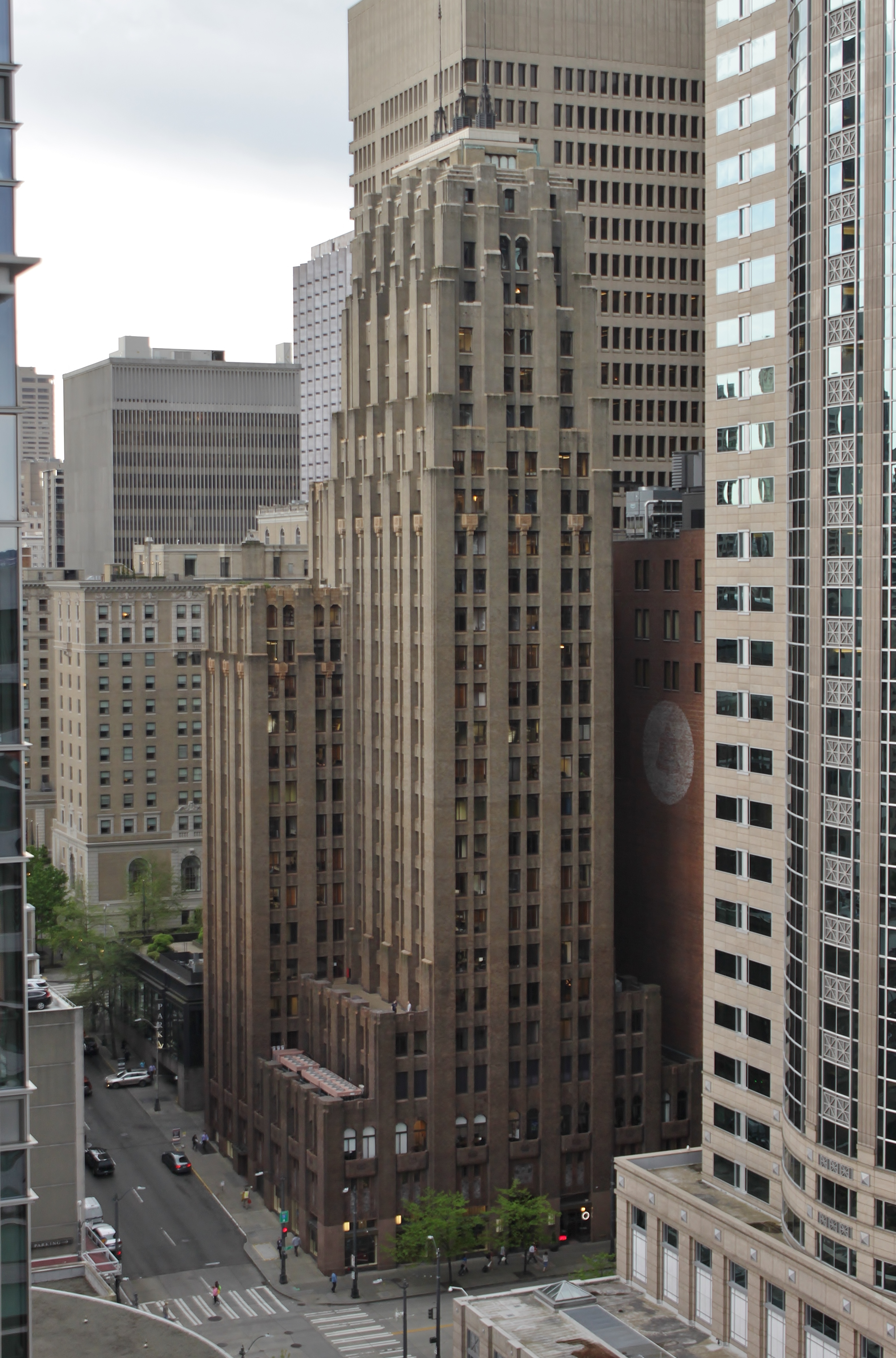 The Seattle Tower, a 1920s Art Deco skyscraper in Downtown Seattle, seen from the 17th floor terrace at the Russell Investments Center.